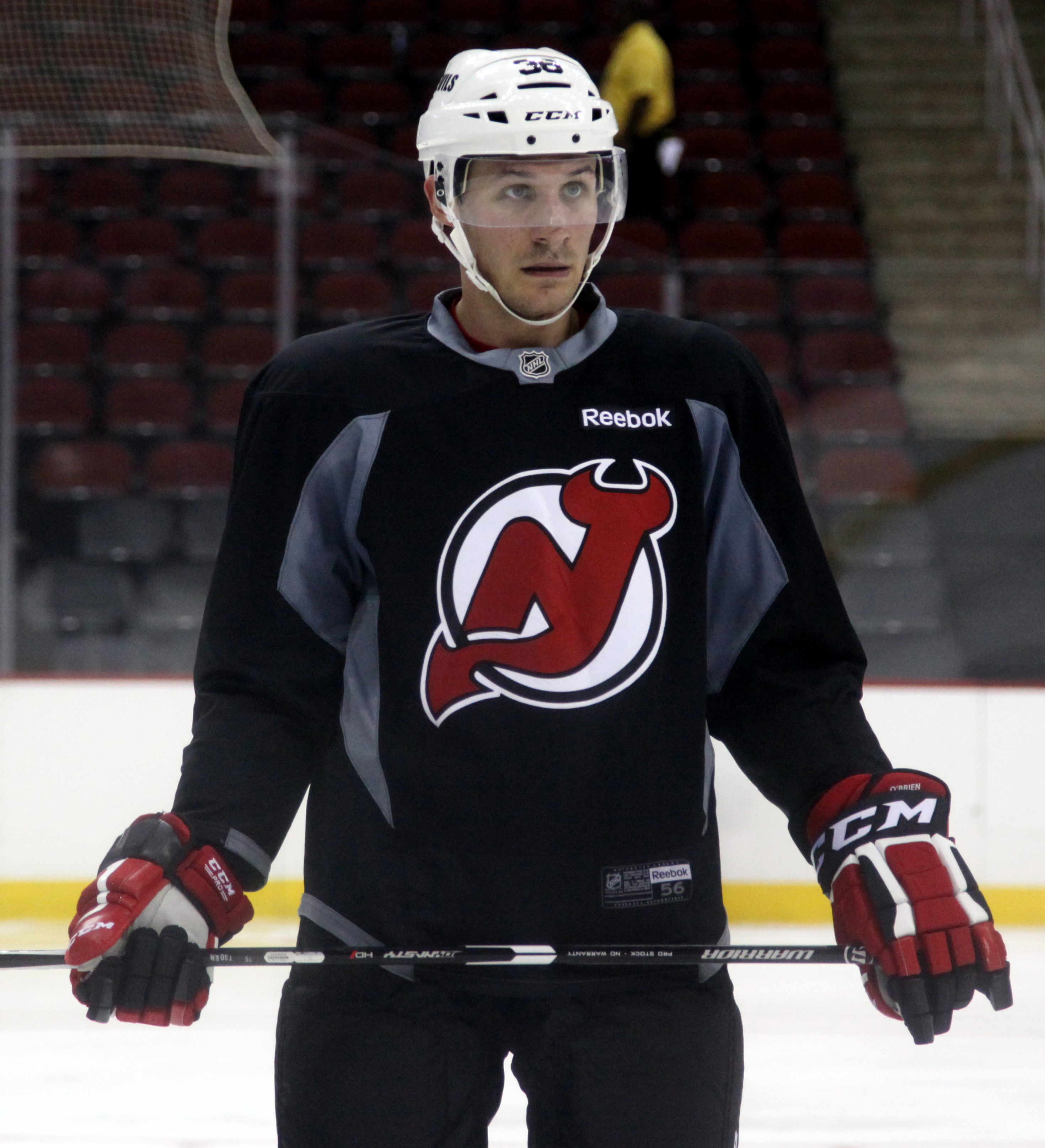 Jim O'Brien New Jersey Devils Training Camp 2015-09-19